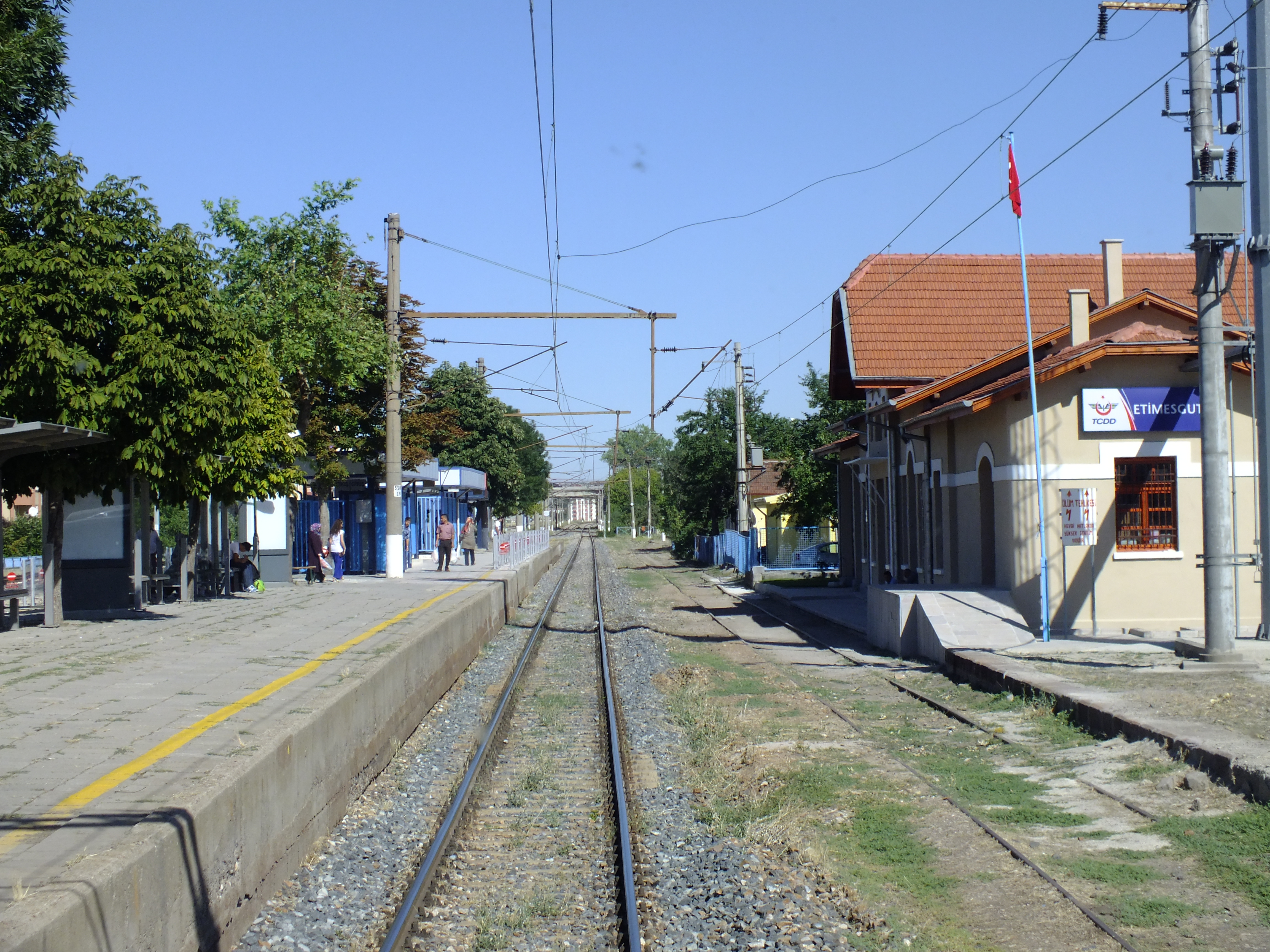 The now-demolished platform of Etimesgut station.